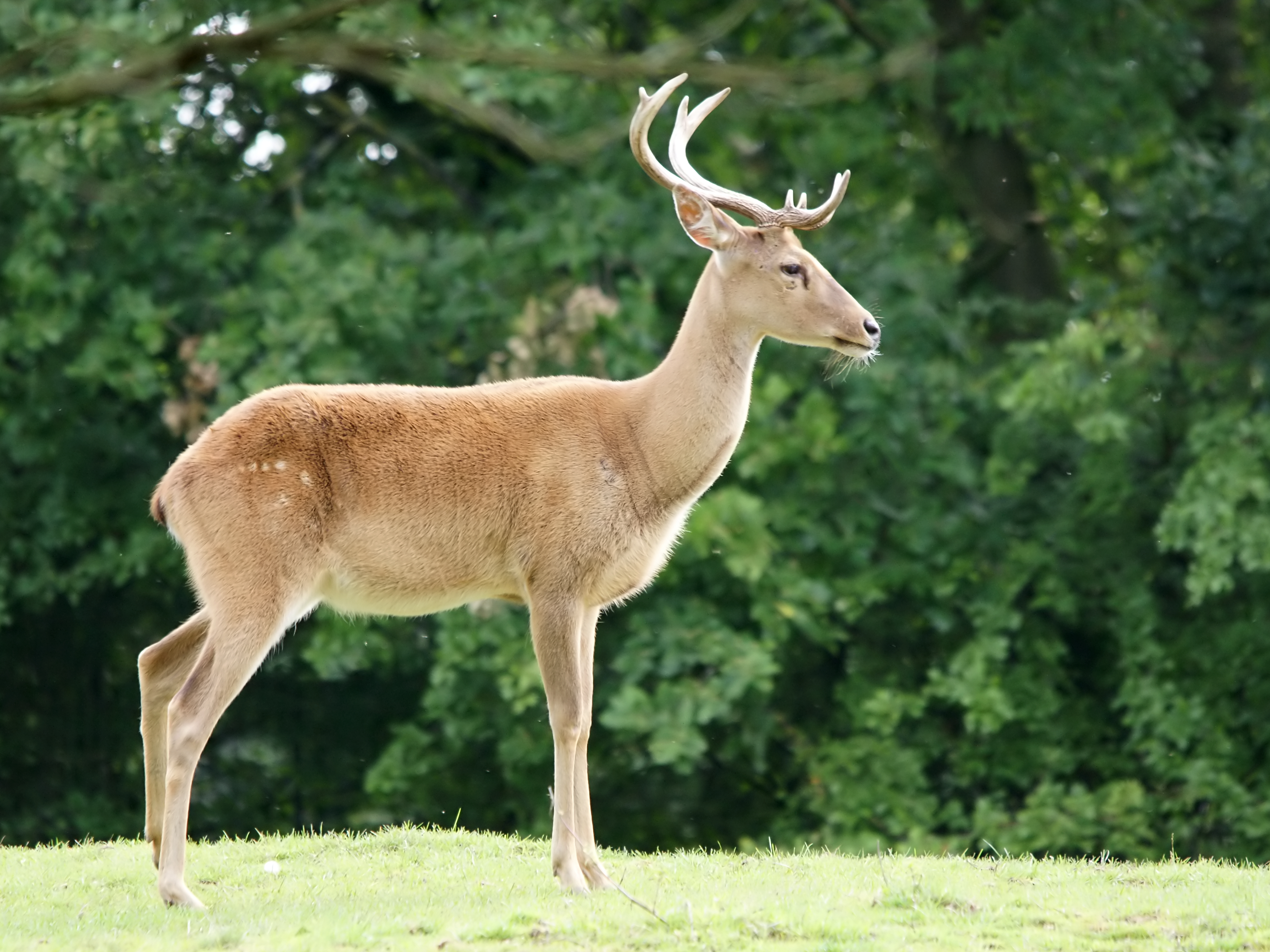 Brow-antlered Deer at Chester Zoo near Chester, UK.